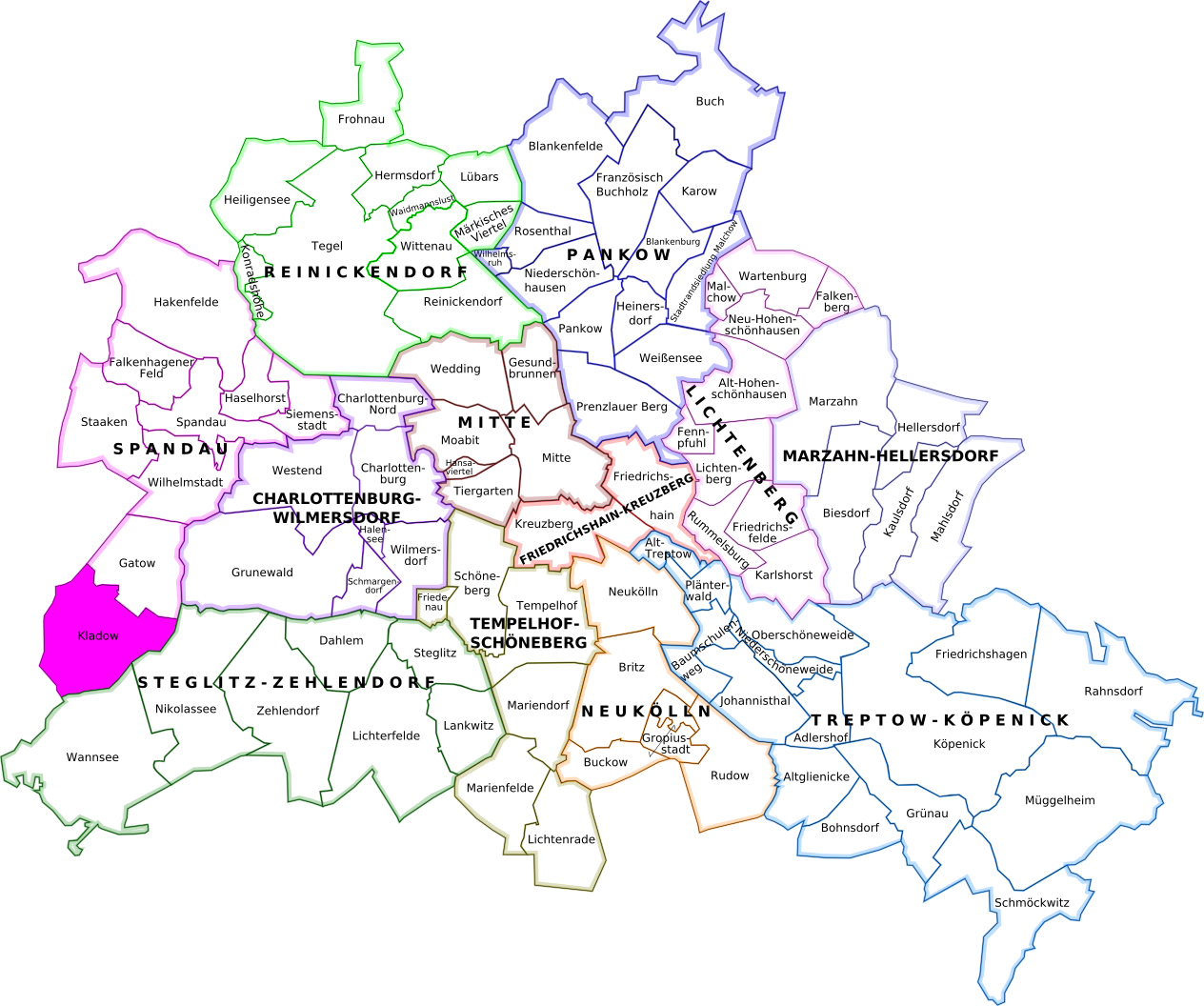 A map of the location of Kladow in Berlin